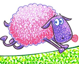 Squiggling Technique with Connector Pen